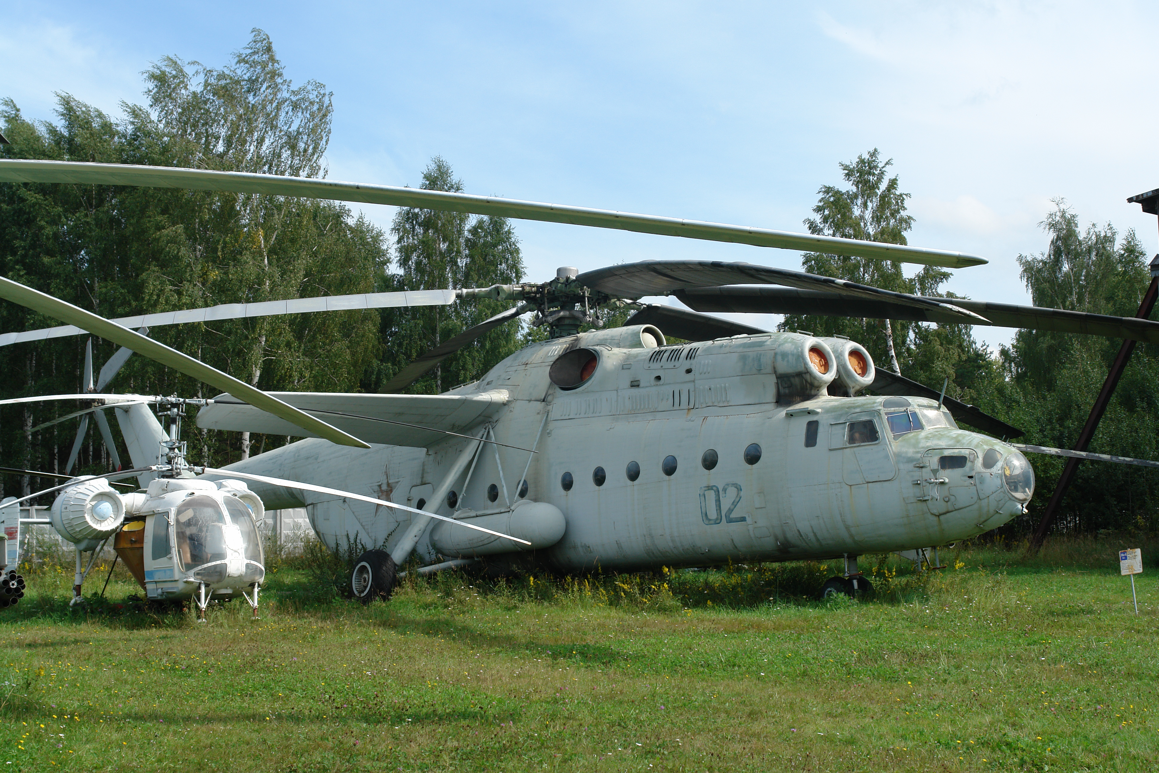 Mil Mi-6 (Hook) at Monino Central Air Force Museum (Moscow).